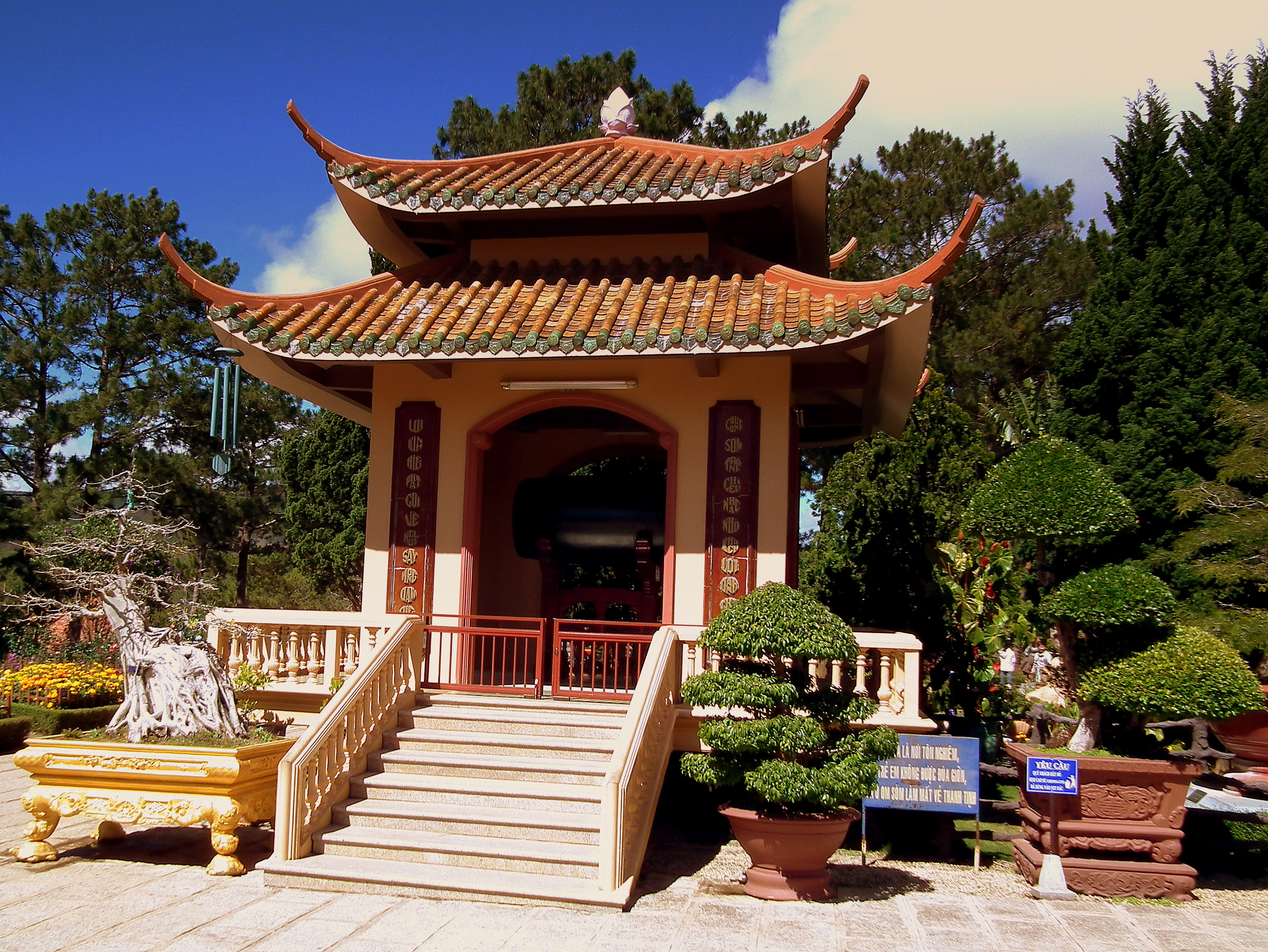 BUDDIST TEMPLE DA LAT VIETNAM JAN 2012